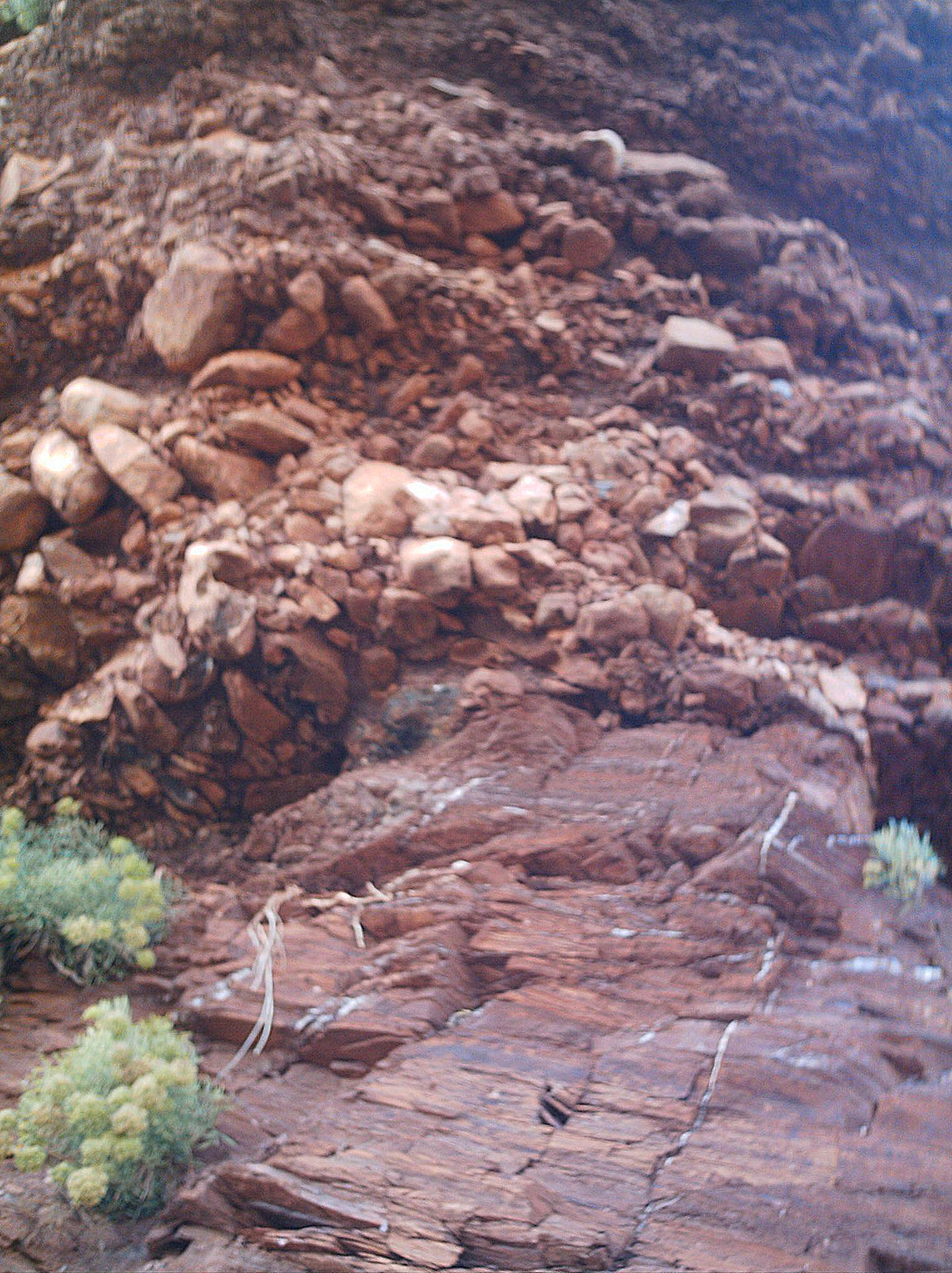 Changes in rock deposits, Saltern Cove, Paignton, UK. Distance from camera: two metres.